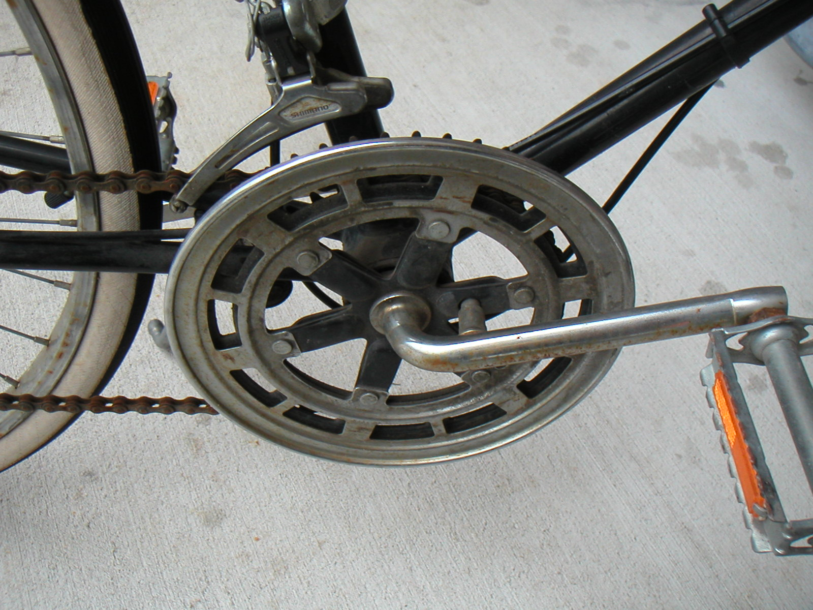 Taken by Andrew Dressel